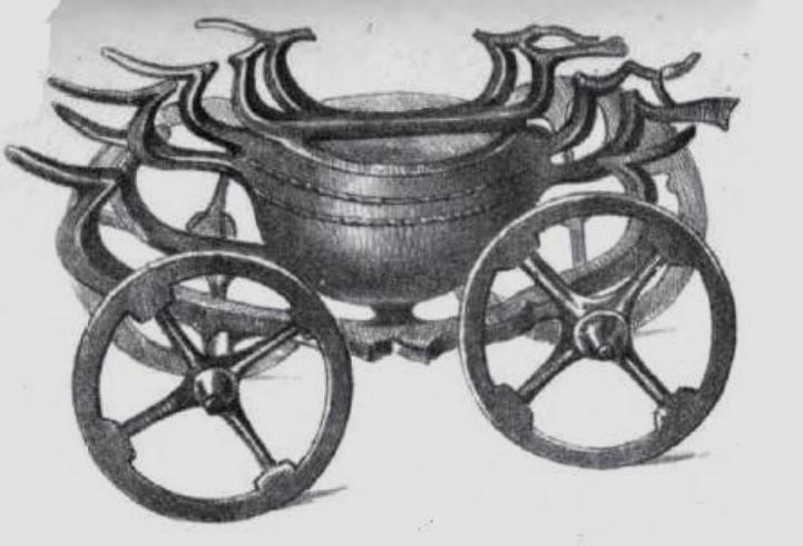 A wheeled cauldron (German Kesselwagen) found at Orăştie (Transylvania region, Romania) in 19th century. It is drawn by teams of swans / water-birds, used as a crematory urn during the later Celtic Bronze Age ritual in ancient Western Dacia (prehistoric Romania) Dated: Bronze Age.